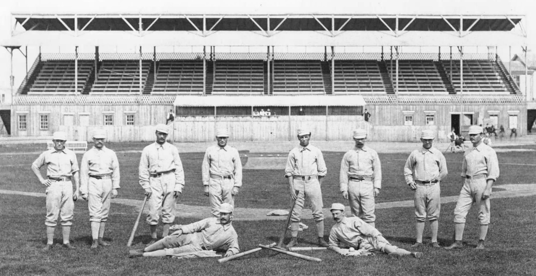 Members of the 1879 Providence Grays from left to right, standing: John Ward, Tom York, Emil Gross, Joe Start, George Wright, Jim O'Rourke, Mike McGeary, and Paul Hines. On the ground: Jack Farrell and Bobby Mathews